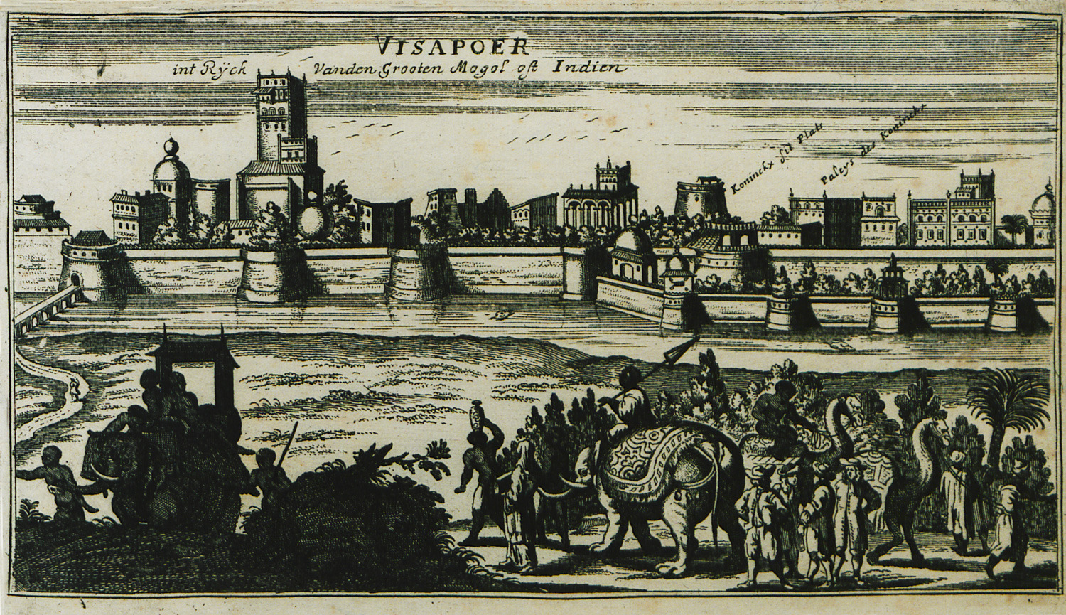 Jacob Peeters. Description des principales villes, havres et isles du golfe de Venise du coté oriental. Comme aussi des villes et forteresses de la Moree, et quelques places de la Grèce, Antwerp, Sur le marché des vieux Souliers, 1690.